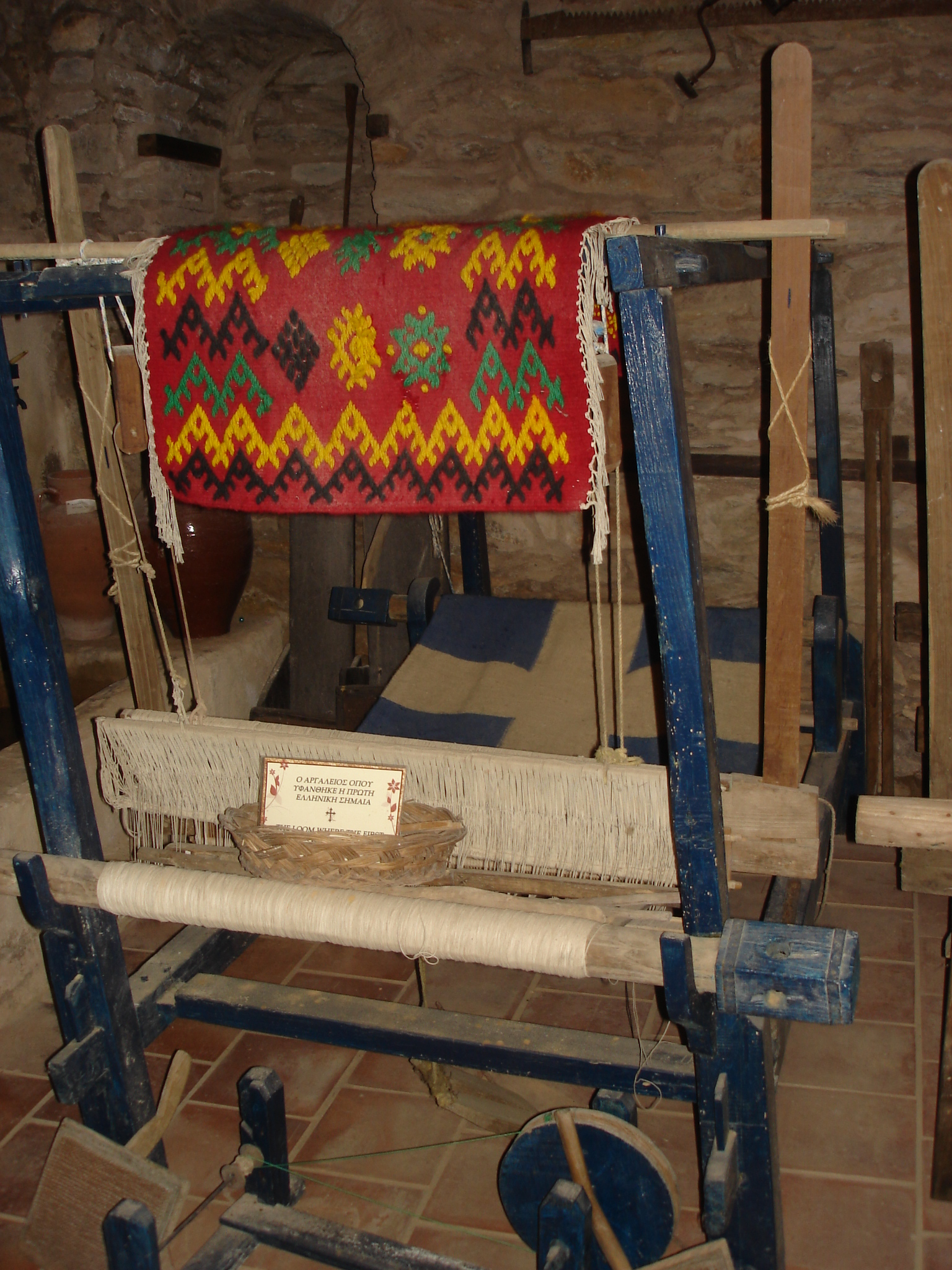 Loom, Evangelistria Monastery, Skiathos on which the first Greek flag was made.